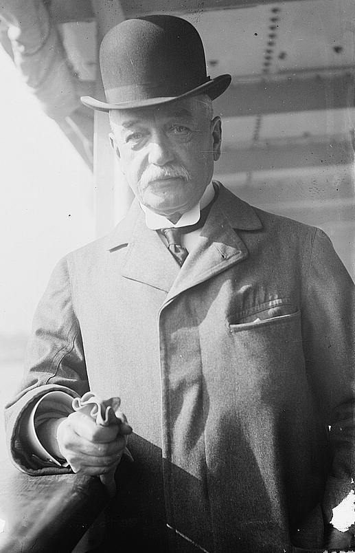 Bain News Service,, publisher. Sir Charles Johnston in 1913 [no date recorded on caption card] 1 negative : glass ; 5 x 7 in. or smaller. Notes: Title from unverified data provided by the Bain News Service on the negatives or caption cards. Forms part of: George Grantham Bain Collection (Library of Congress). Format: Glass negatives. Repository: Library of Congress, Prints and Photographs Division, Washington, D.C. 20540 USA, General information about the Bain Collection is available at Persistent URL: Call Number: LC-B2- 2719-3